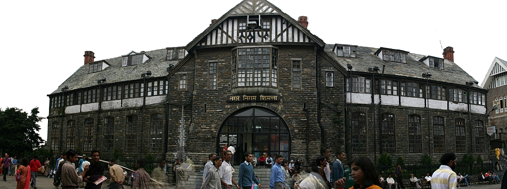 Municipal Corporation (Town Hall), Shimla